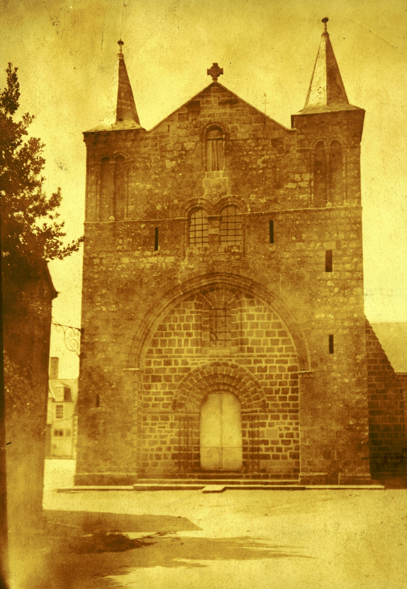 Notre Dame, Pontorson, France, n.d.. Photograph taken by A. Kingsley Porter. Facade of church. No date. See letter in file. Brooklyn Museum Archives, Goodyear Archival Collection (S03_01_01_066 image 6). Help us map this image by using Suggestify to suggest a location for it.